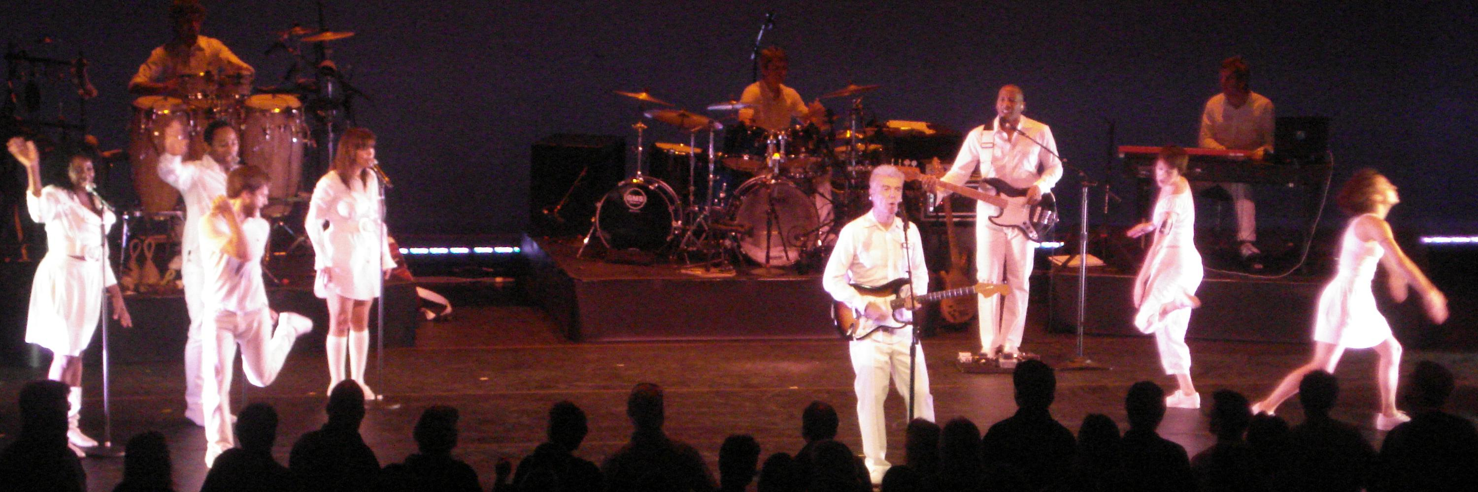 Performers on the Songs of David Byrne and Brian Eno Tour performing their first night (2008-09-16) at Zoellner Arts Center - Baker Hall in Bethlehem, Pennsylvania: David Byrne – voice and guitar Mark De Gli Antoni – keyboards Lily Baldwin – dancing Paul Frazier – bass Redray Frazier – background vocals Graham Hawthorne – drums Natalie Kuhn – dancing Kaïssa – background vocals Jenni Muldaur – background vocals Mauro Refosco – percussion Steven Reker – dancing